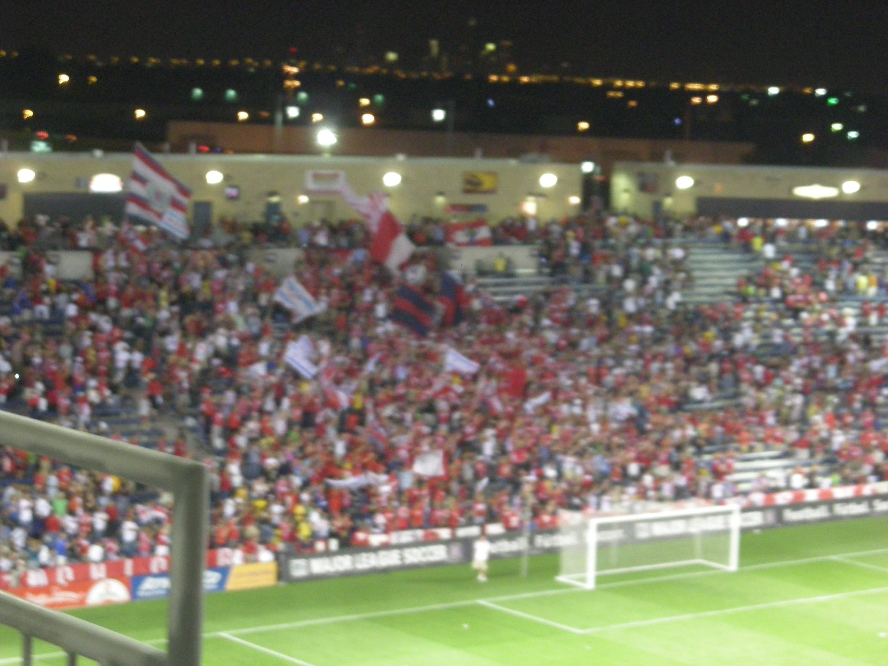 Section 8 Chicago during the match between the Chicago Fire and Toronto FC at Toyota Park in Bridgeview, Illinois (United States).